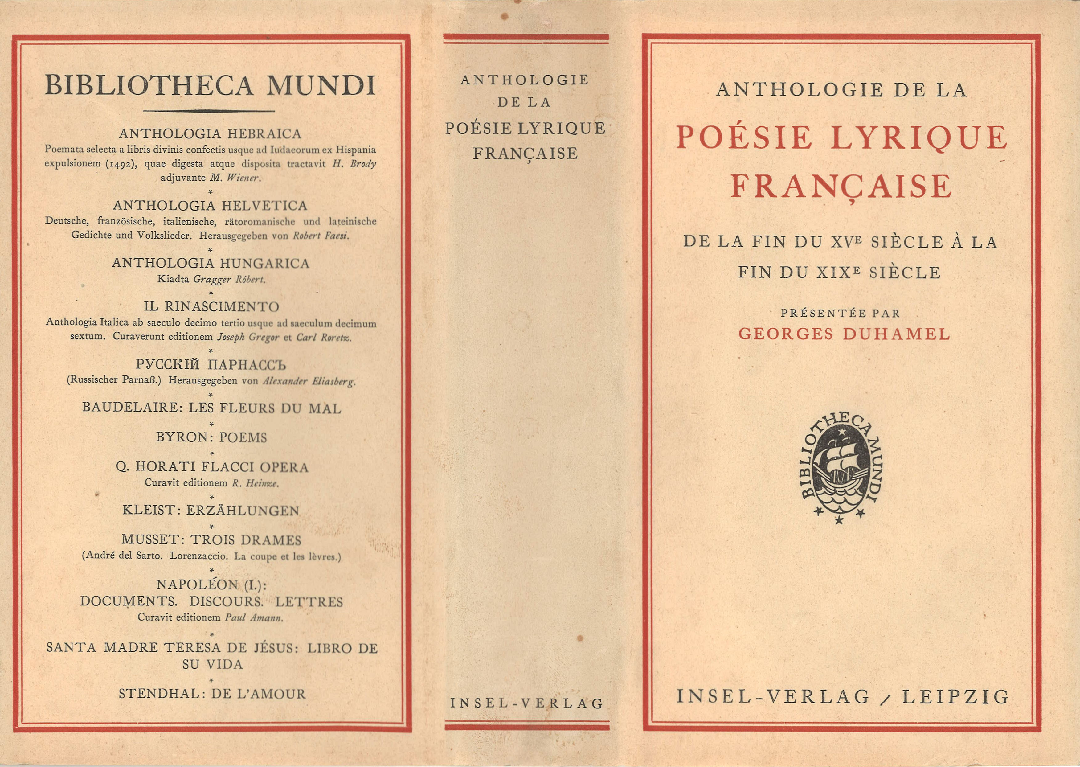 Duhamel: Anthologie francaise, Insel Verlag 1923, DW